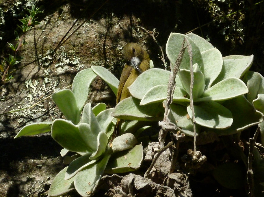 Female Anthobaphes collecting hairs from plant growing on wallface of Platteklip gorge, Table Mountain, Cape Town